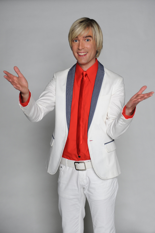 Showbizz Bart